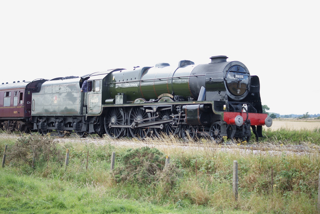 46115 - 'Scots Guardsman' hauling the 'Scarborough Spar Express'. 12/08/10.